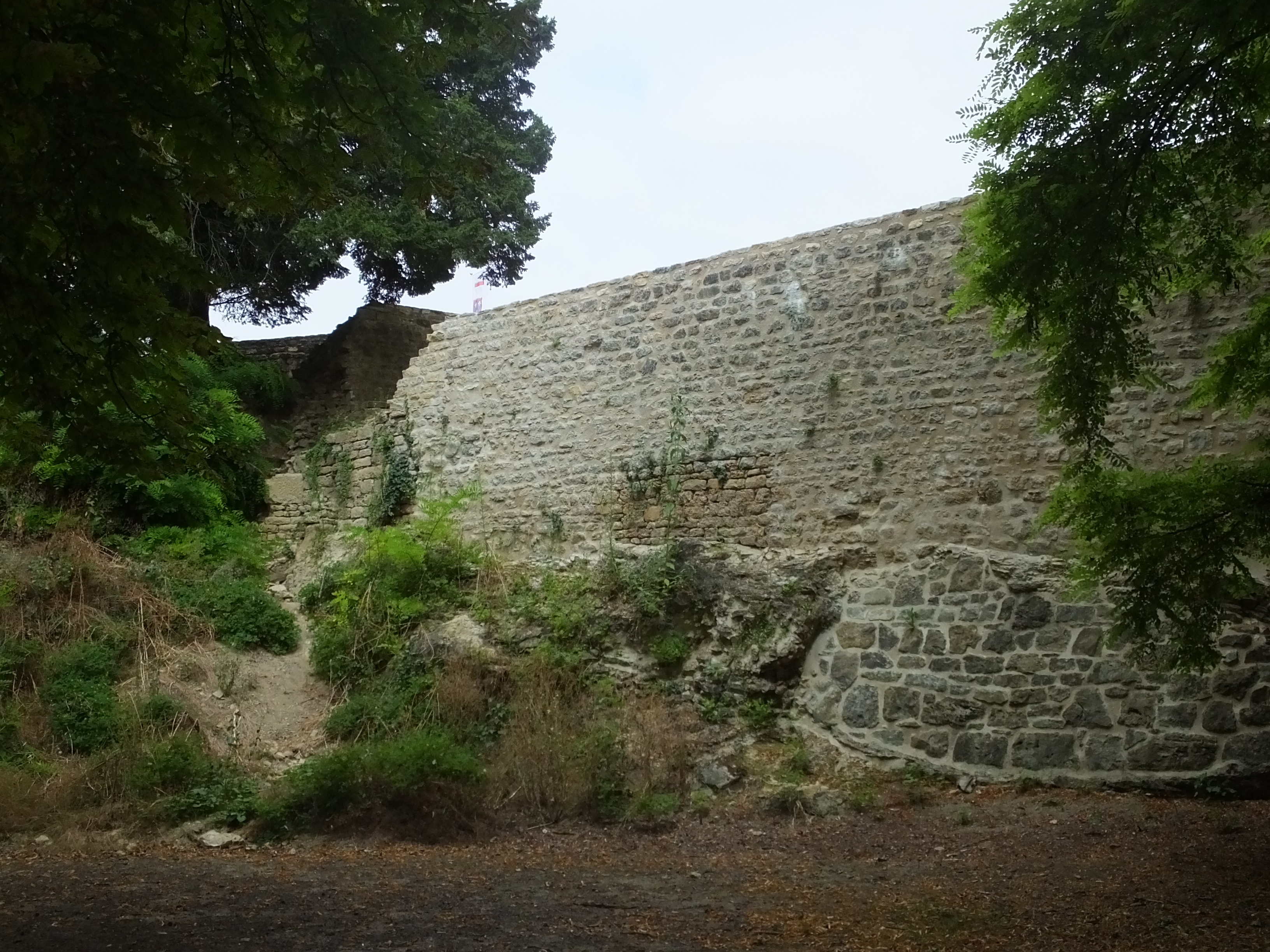 Saint-Amand-Montrond is a town in Cher (department). It is on the Cher (river), and the Canal du Berry. This is the Forteressse of Montrond ancient residence of Sully and Condé.